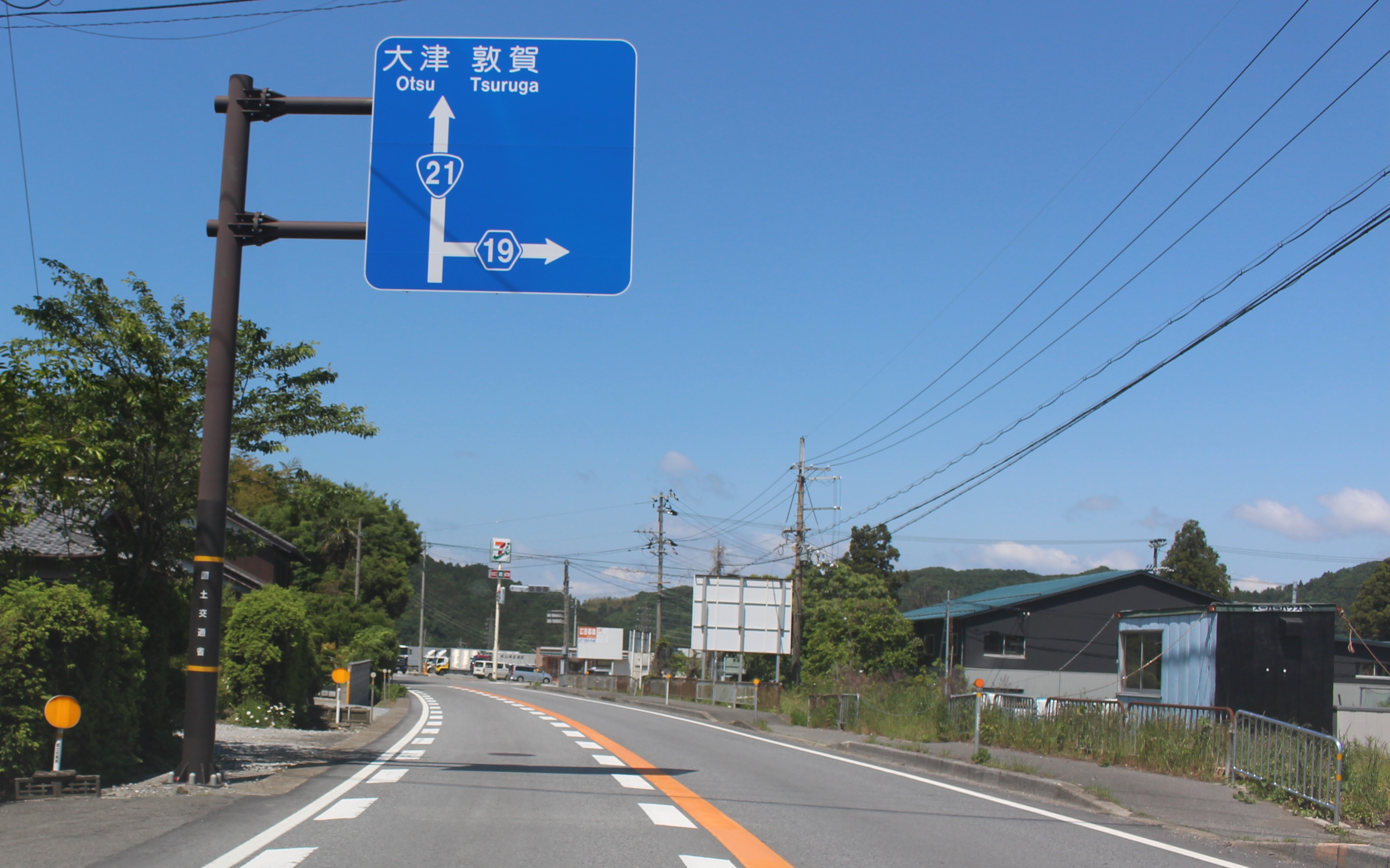 Route 21in Isshiki, Maibara, Shiga prefecture, Japan.